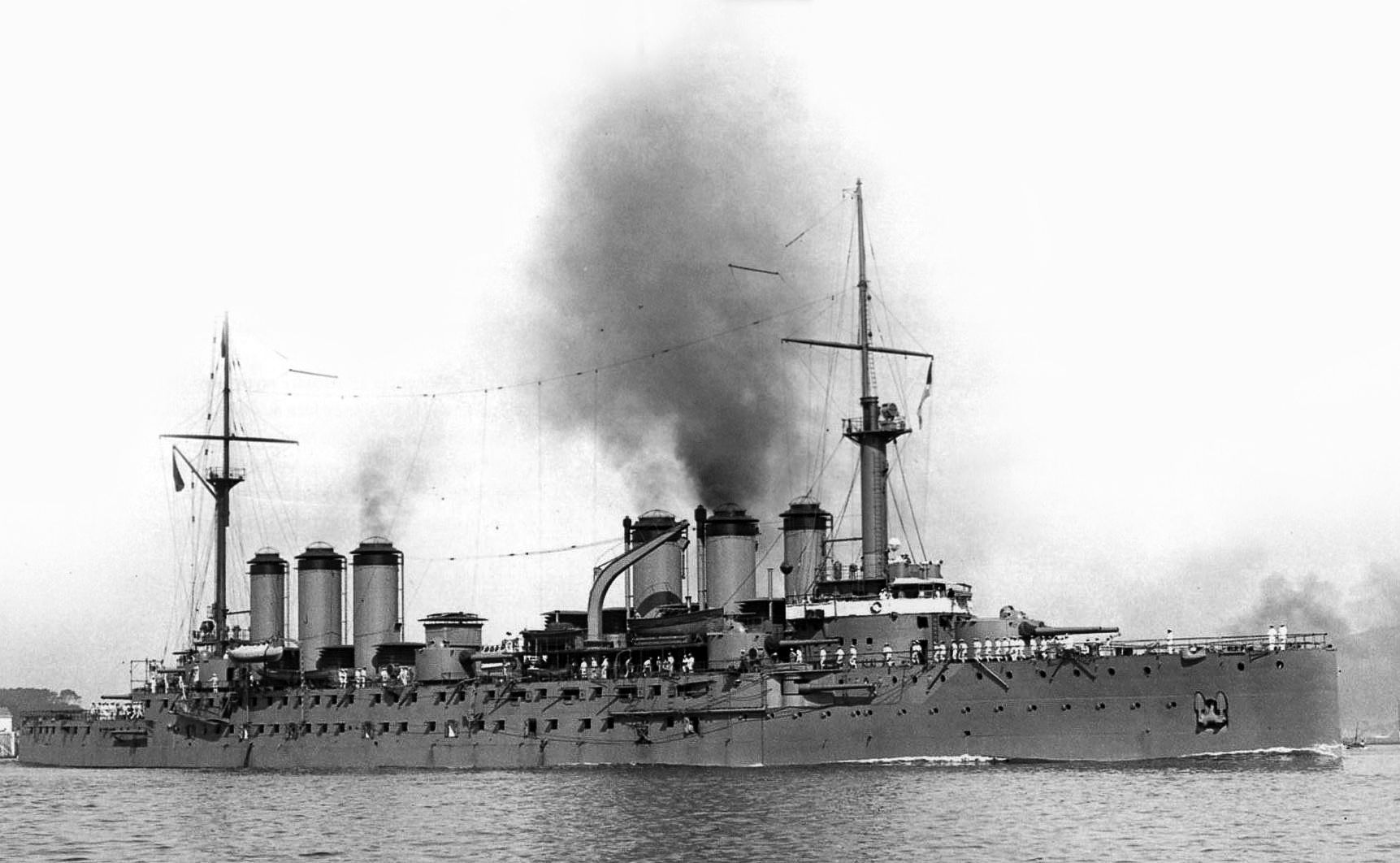 French cruiser Edgar Quinet